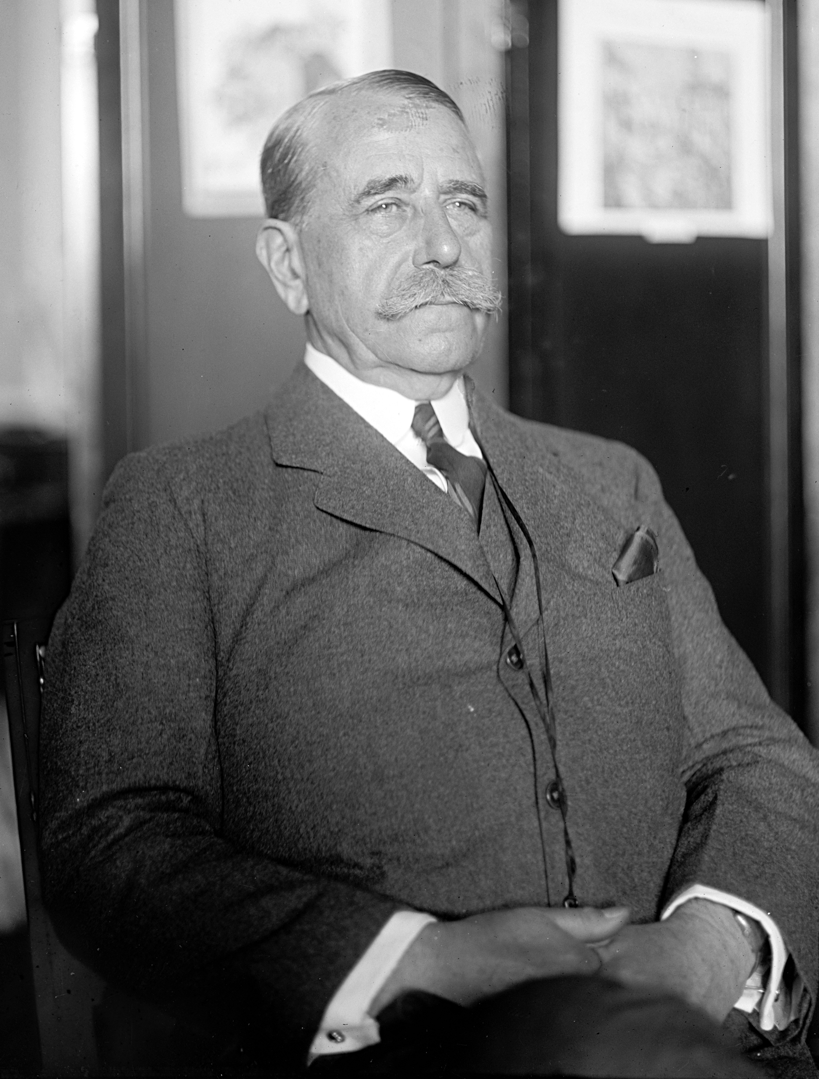 George Scott Graham, US Representative from Pennsylvania